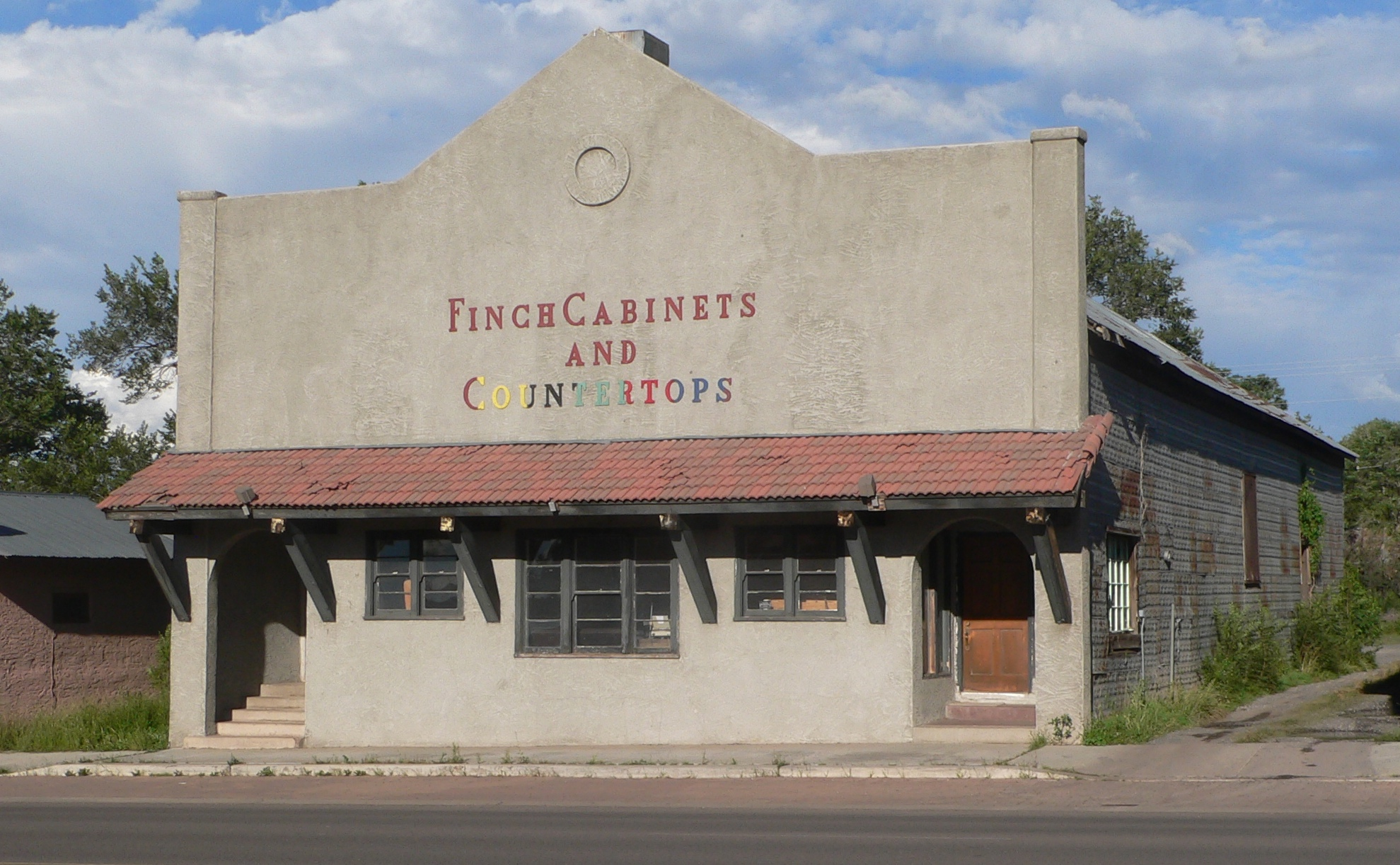 "Grapevine Hall" building at 45 N. Main Street in Eagar, Arizona. The building is a contributing property in the Eagar Townsite Historic District, listed in the National Register of Historic Places.